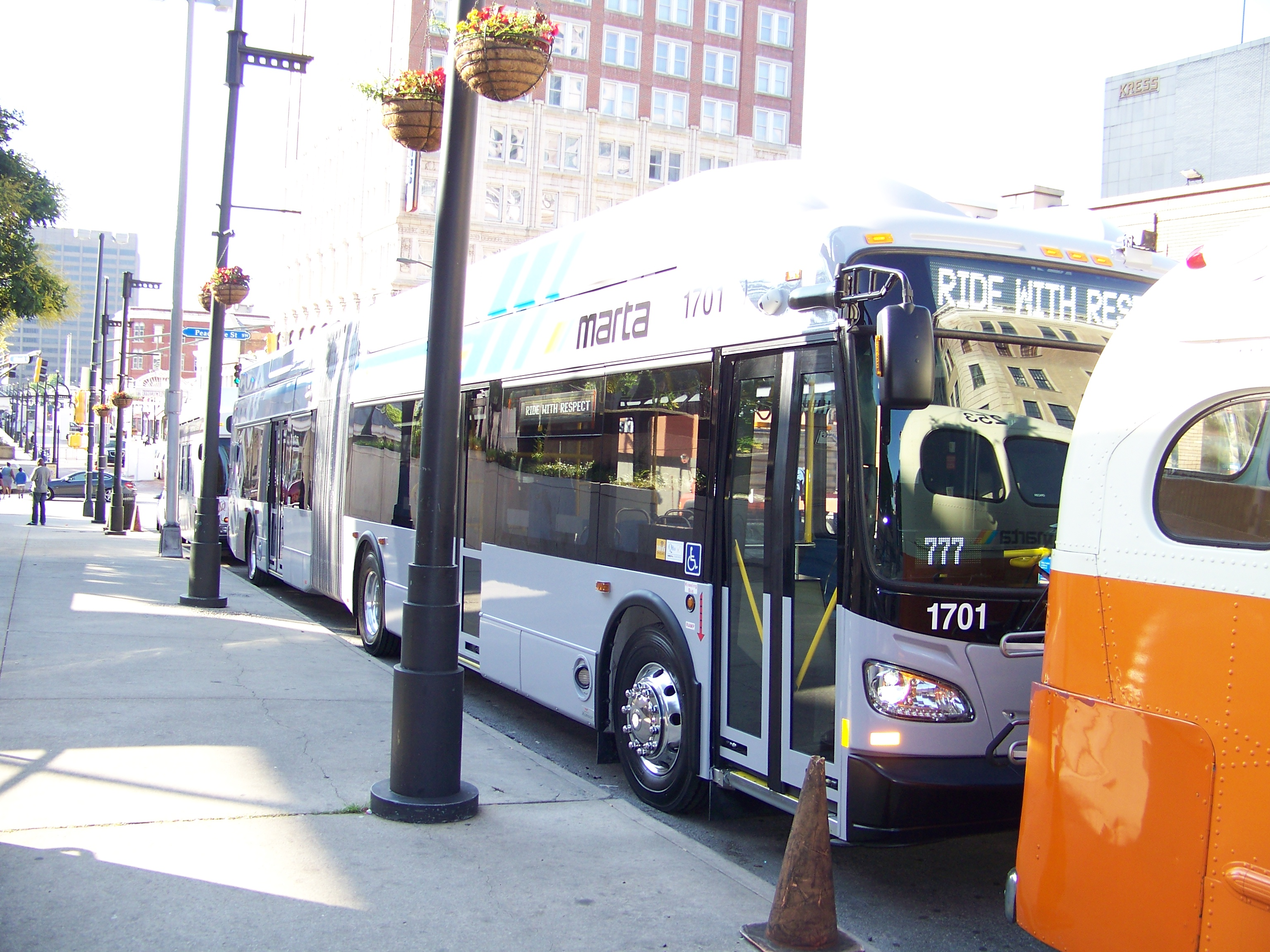 2016 New Flyer Industries XN60 MARTA Bus#1701